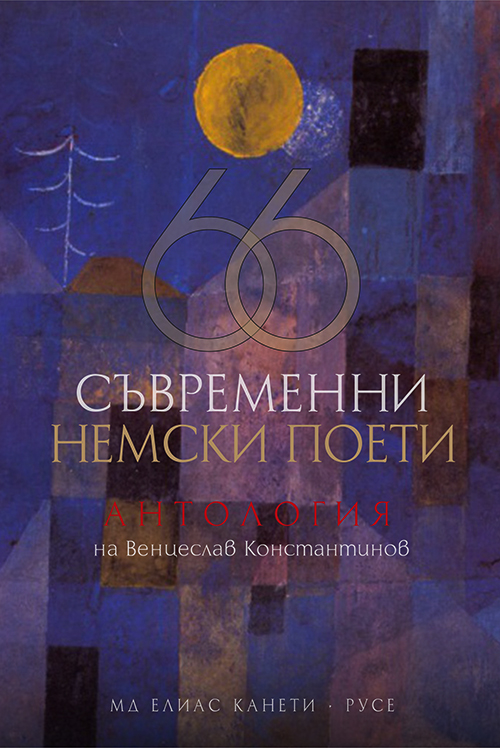 front cover of the book "66 Contemporary German Poets" by ventseslav konstantinov, 2012